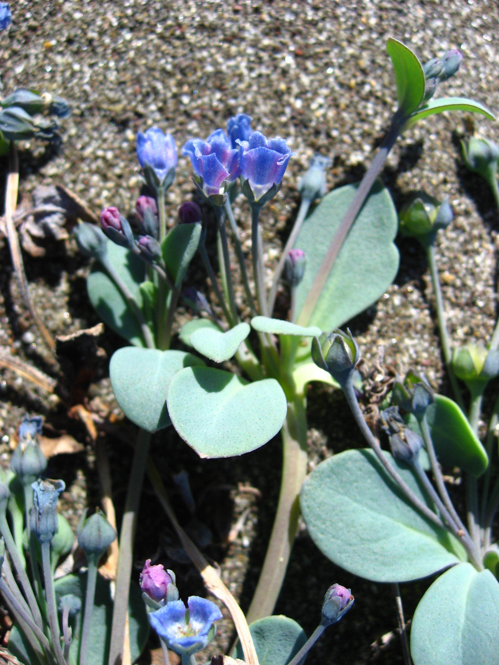 Mertensia maritima photographed on the beach north of the village Upernavik Kujalleq, Greenland.